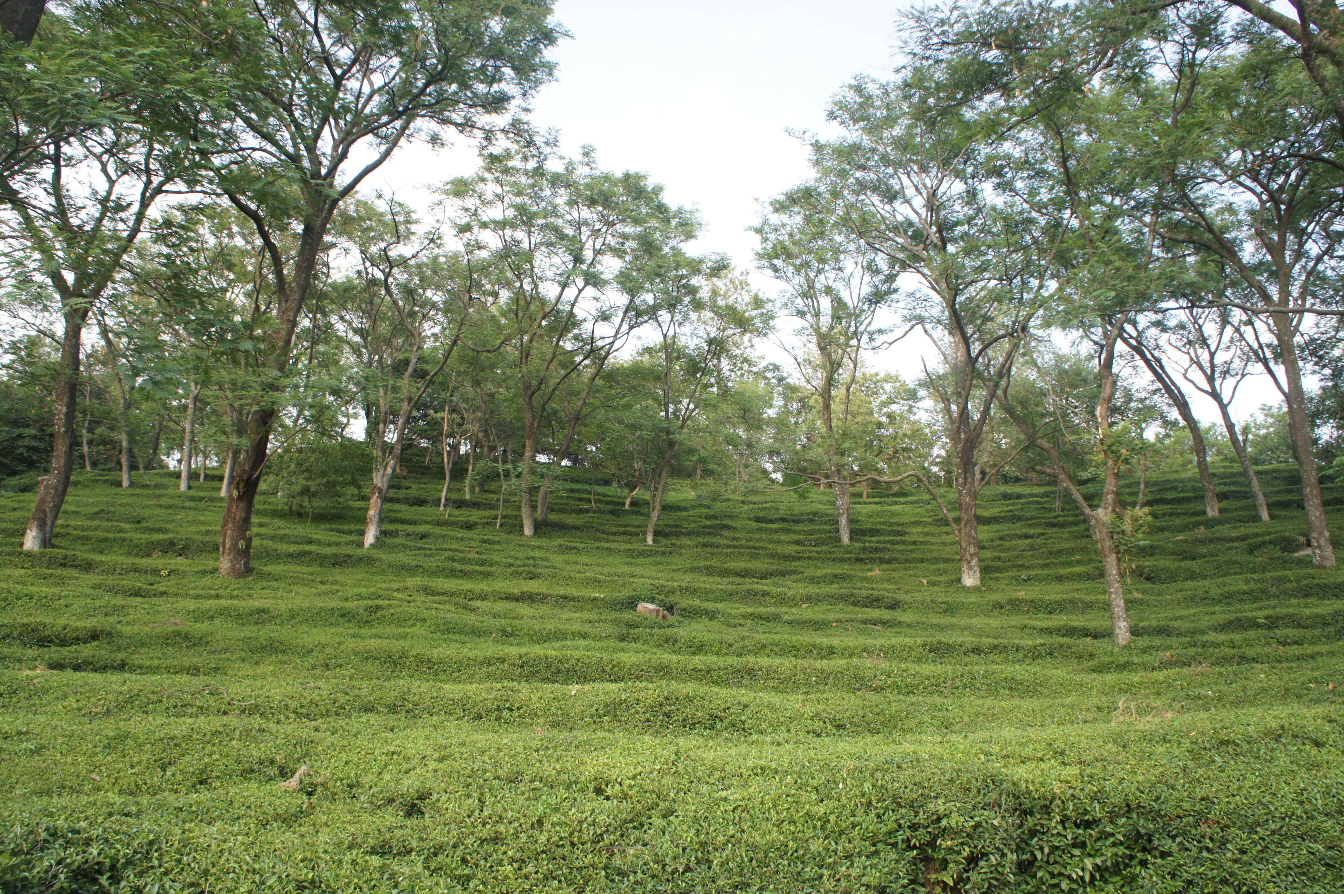 Mann Tea Estate, owned by the Dharmsala Tea Company, located near Dharamsala and Mcleodganj in the Kangra district of Himachal Pradesh, India